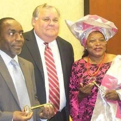 Wikipedia page picture for Chief Temitope Ajayi